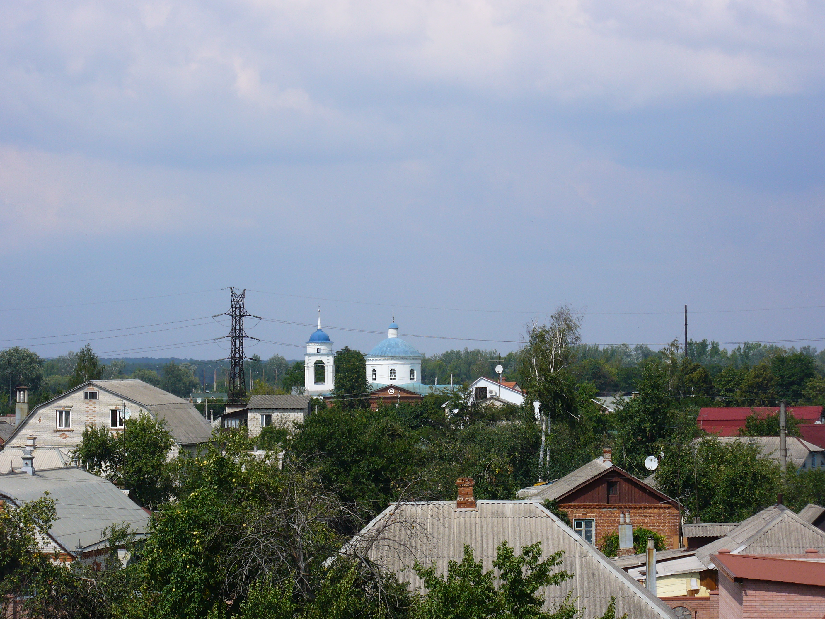 The photography of the church of the Nativity of John the Baptist in Luka, a suburb of Sumy